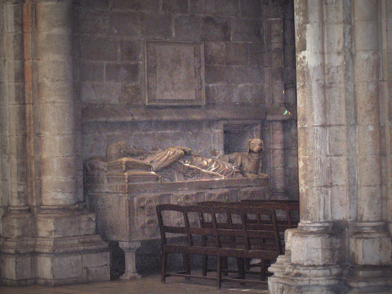 Gothic tomb of knight Lopo Pacheco in the Cathedral of Lisbon, Portugal